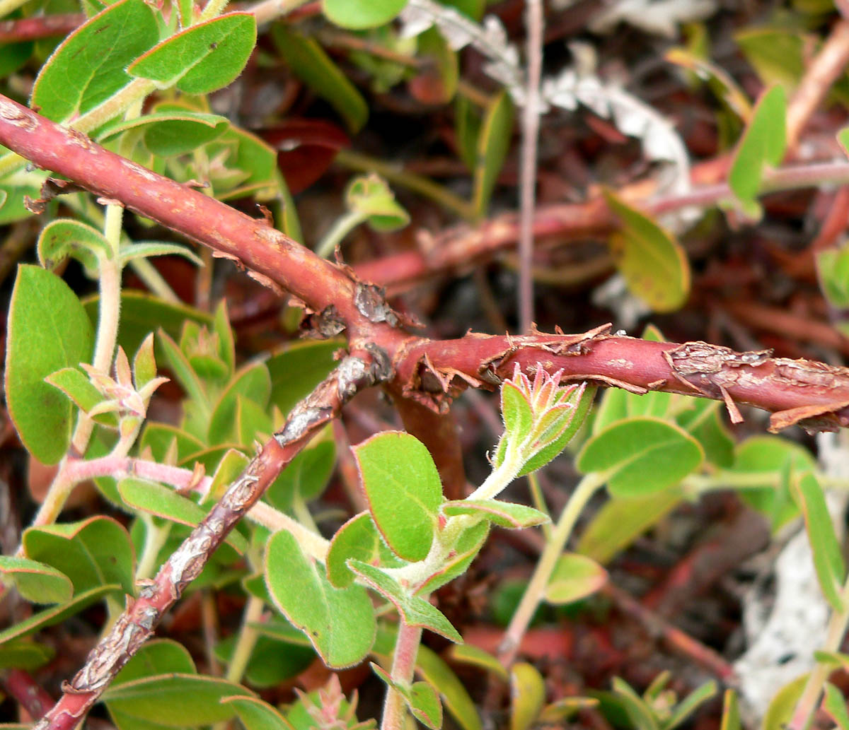 Photo of Arctostaphylos cruzensis at Regional Parks Botanic Garden